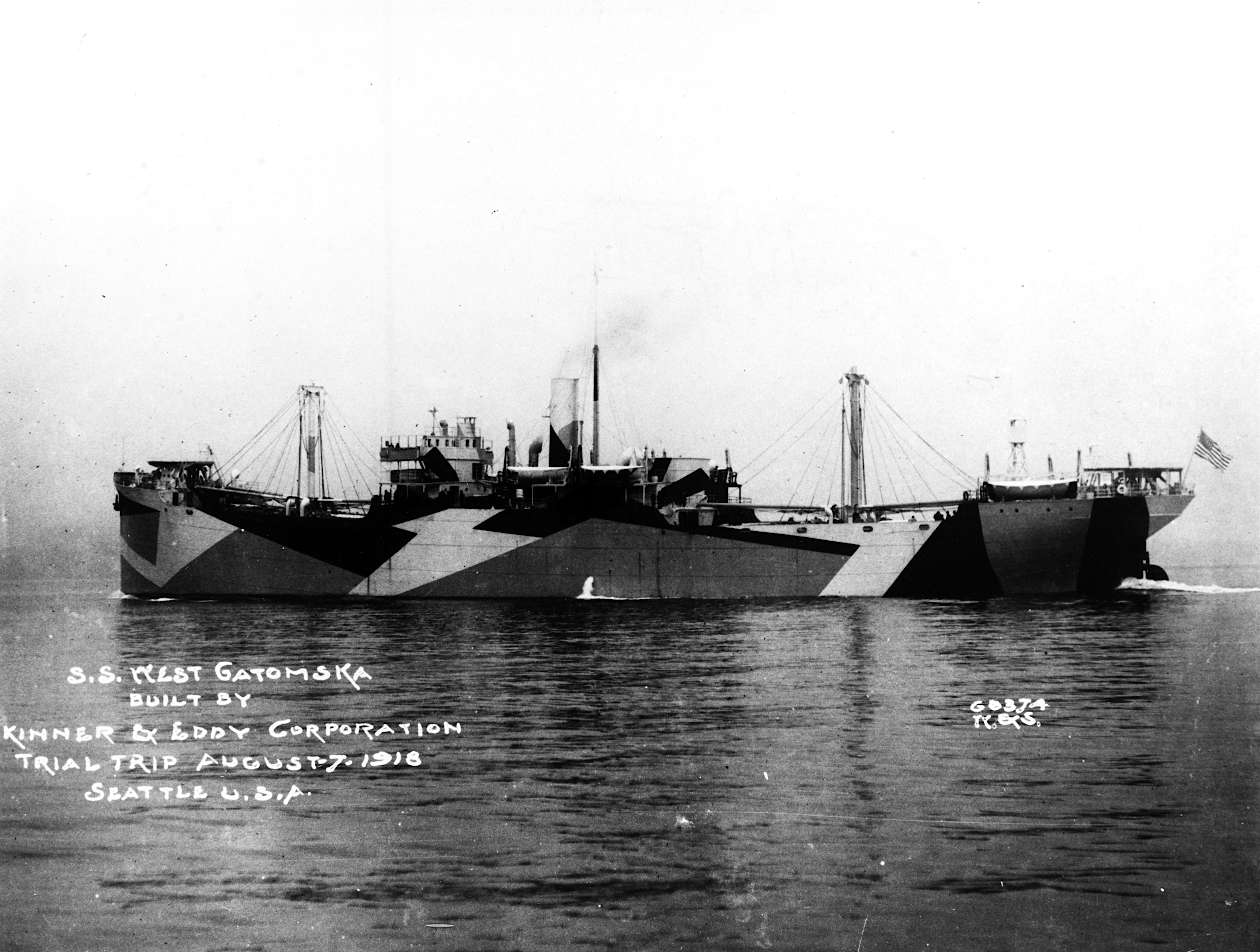 SS West Gotomska in camouflage paint, on trials 7 August 1918. She was USS West Gotomska (ID-3322) in 1918-19.